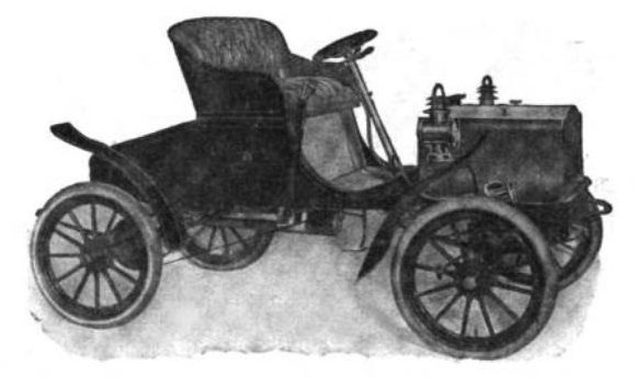 Western Gale Model C. The photo is from an advertisement on page 9 in the April 1906 issue of Cycle and Automobile Trade Journal. The scan is from the Google Book archive. Title Automobile trade journal, Volume 10 Publisher Chilton Company, 1906 Original from the University of Michigan Digitized Oct 2, 2007